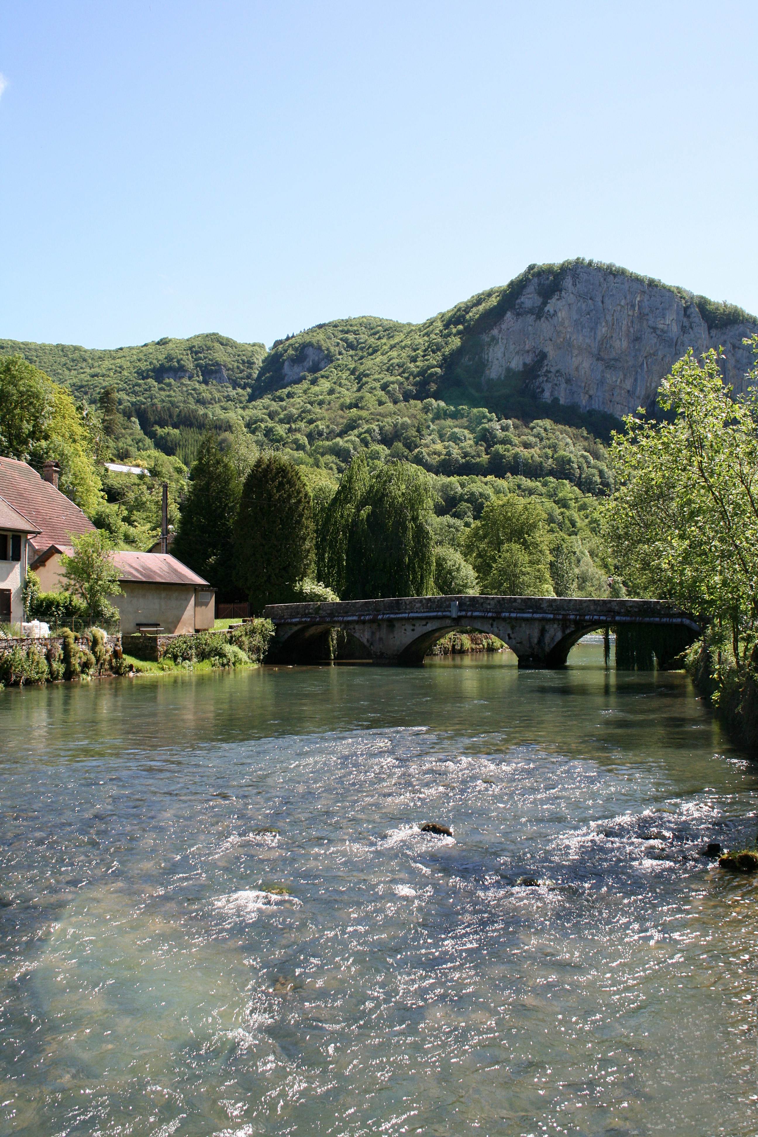 Mouthier-Haute-Pierre (Doubs - France), the bridge over the Loue (river) and the neighborhood of the Rue du Pont.